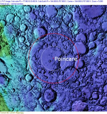 Clementine LIDAR Altimeter texture from PDS Map-a-Planet remapped to north-up aerial view by LTVT. The dot is the center position and the red circle the main ring position. The white circle indicates the location of the 160 km inner ring, which encircles the central mare in the Clementine view.